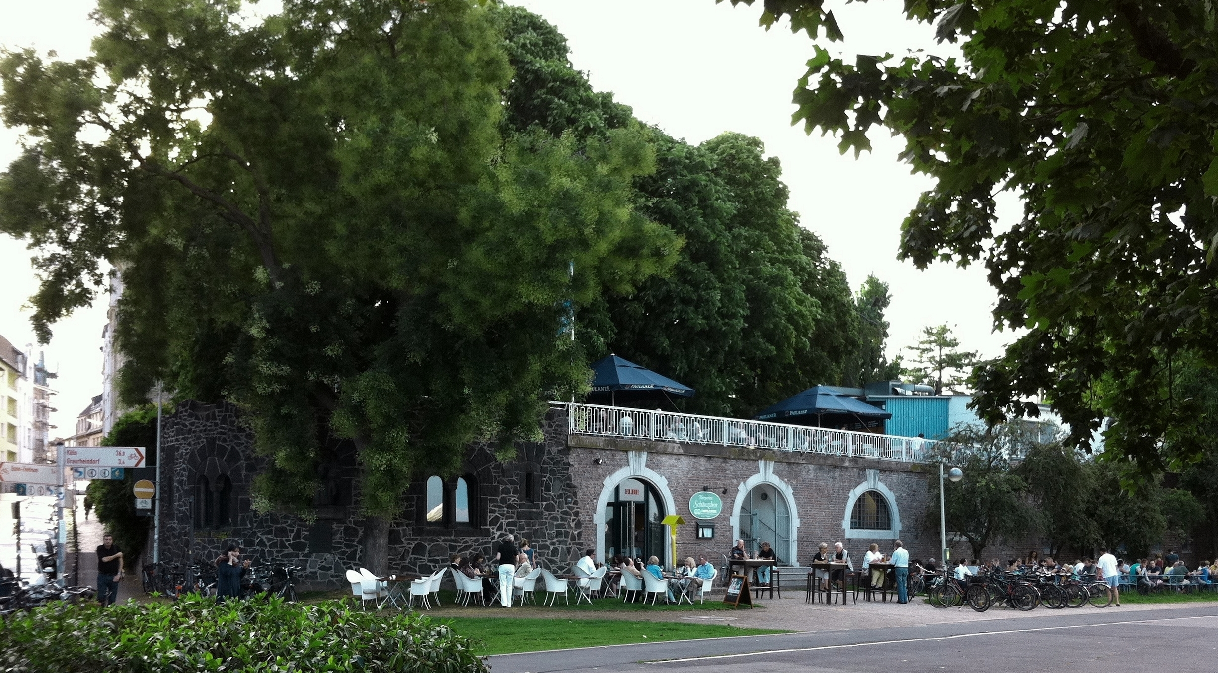 Germany, Bonn-Castell: restaurant and beer garden "Schänzchen" close to the Rhine.